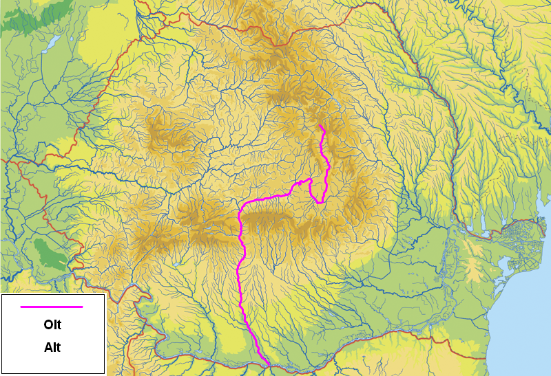 Topographic map of Romania with Olt River highlighted.